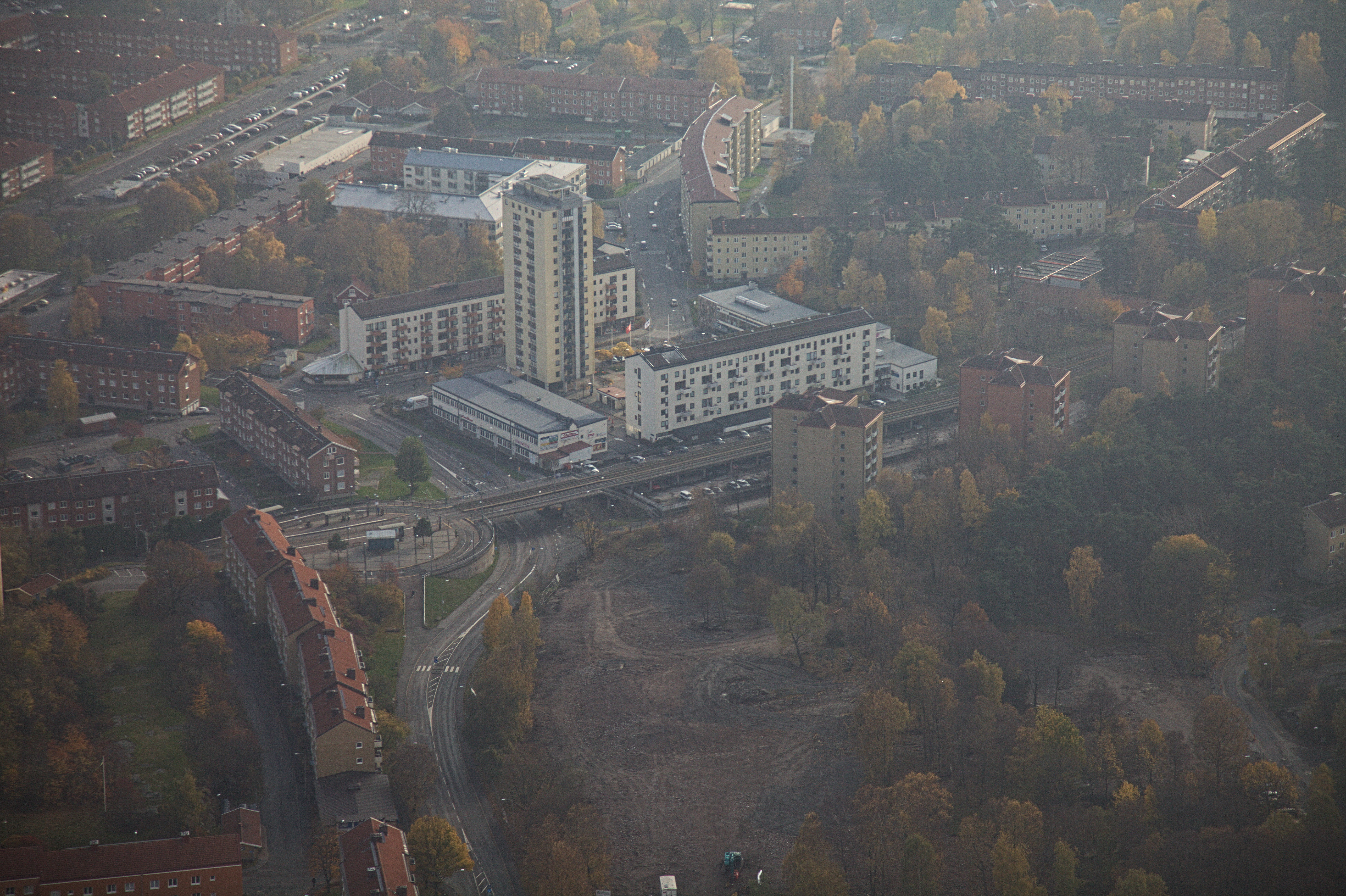 Photo taken on a helicopter over Gothenburg